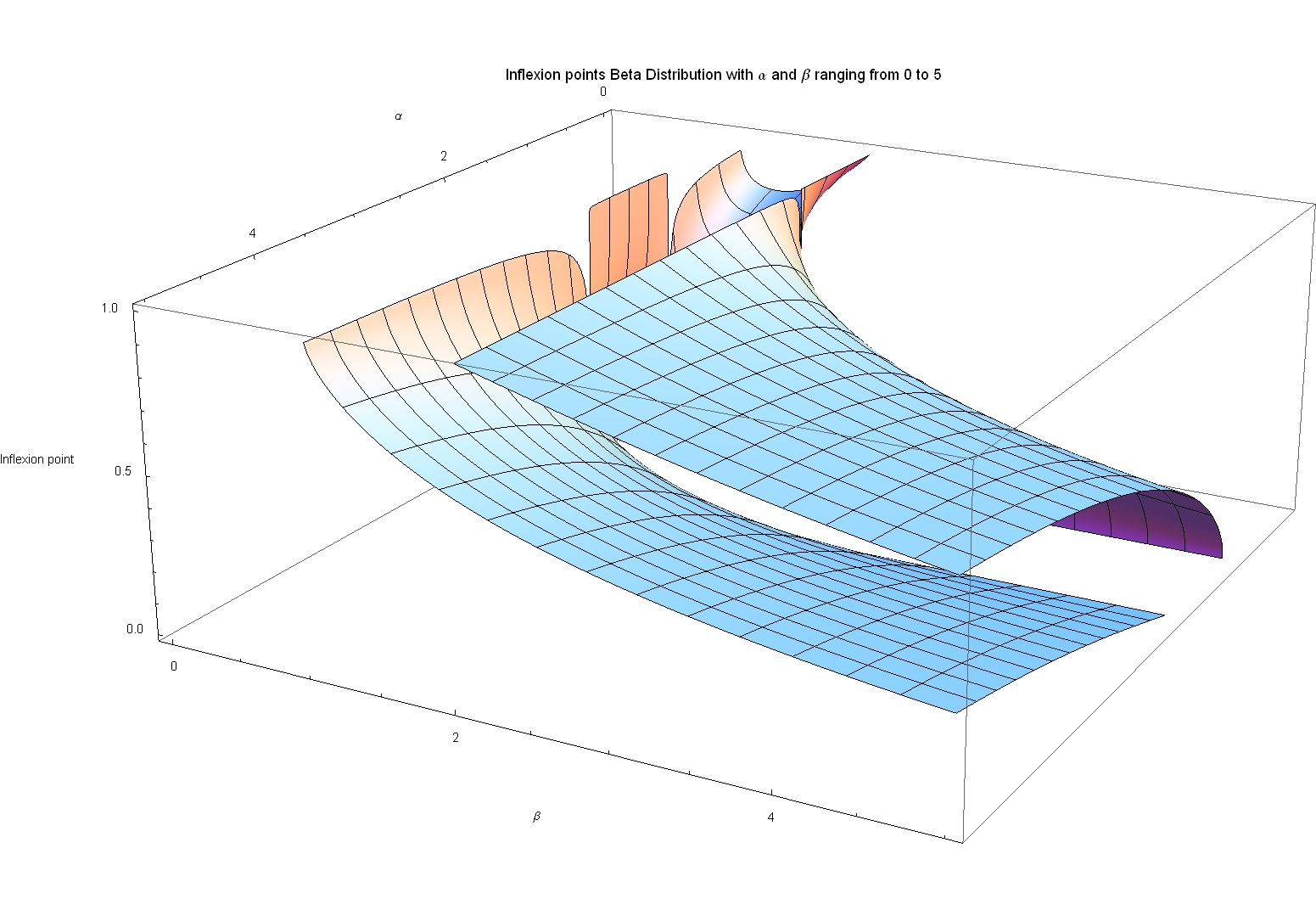 Inflexion points Beta Distribution alpha and beta ranging from 0 to 5 large ptr view - J. Rodal